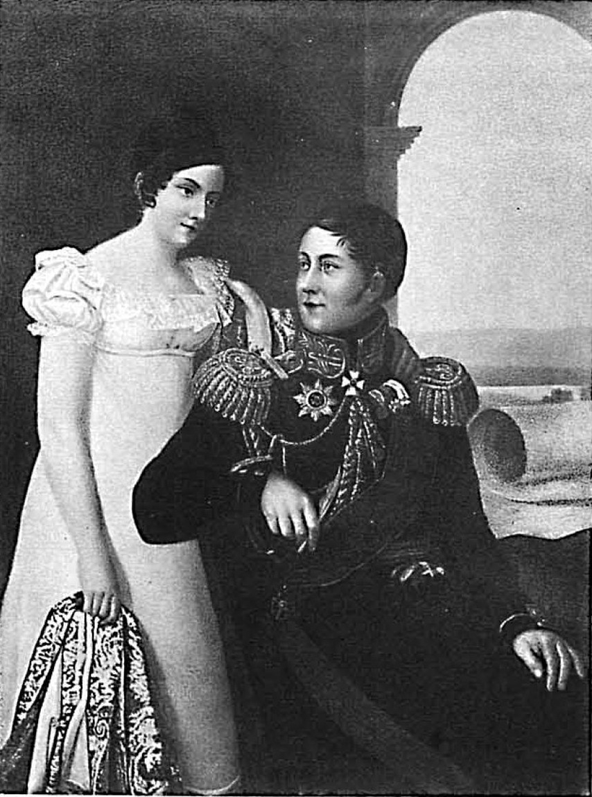 Lieutenant-General of the Russian Empire Sipyagin Nicholas and his wife Maria Vsevolodovna.